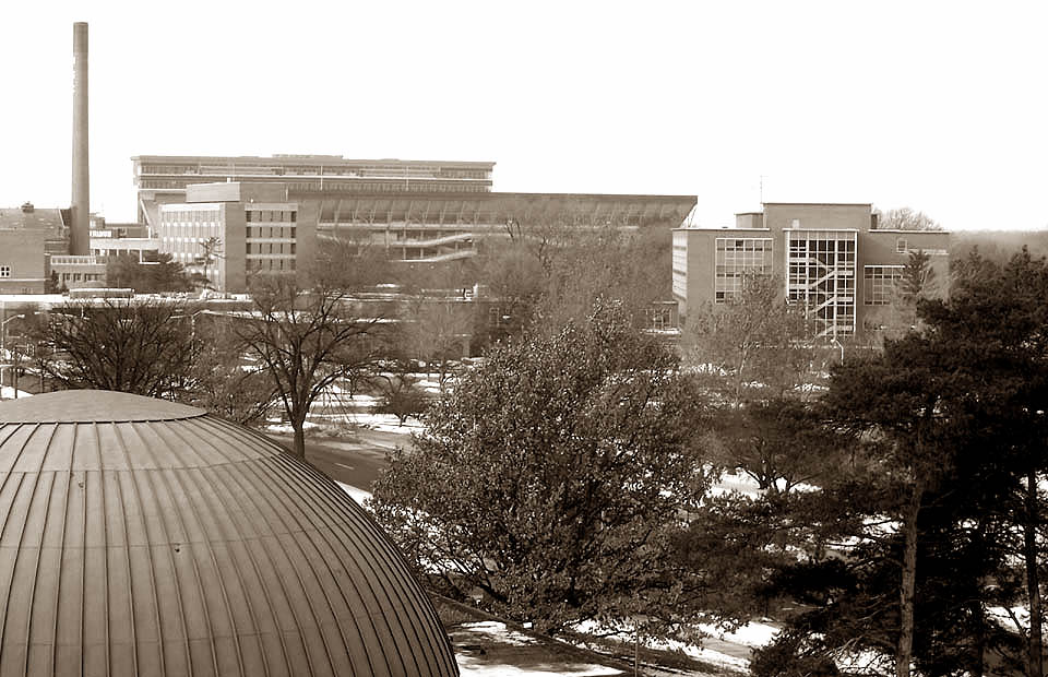 Photo self-taken and sepiatoned.